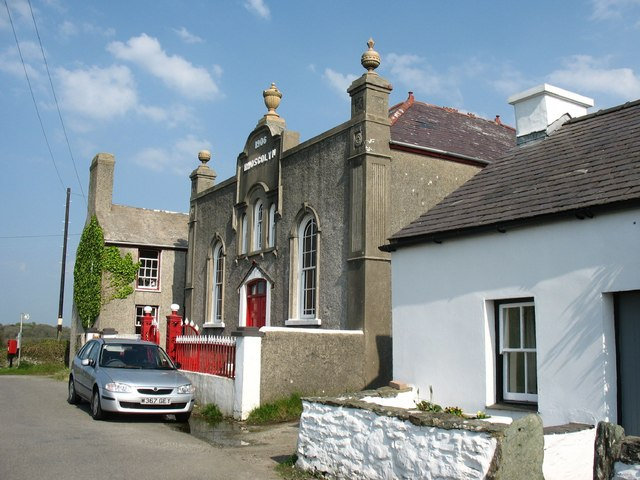 Capel Seion, Rhoscolyn Built in 1906, this is a Welsh Calvinistic Methodist chapel. It is a registered Grade II building. It replaced a 1805-built chapel and is also known as Capel Ty'n Rhos.